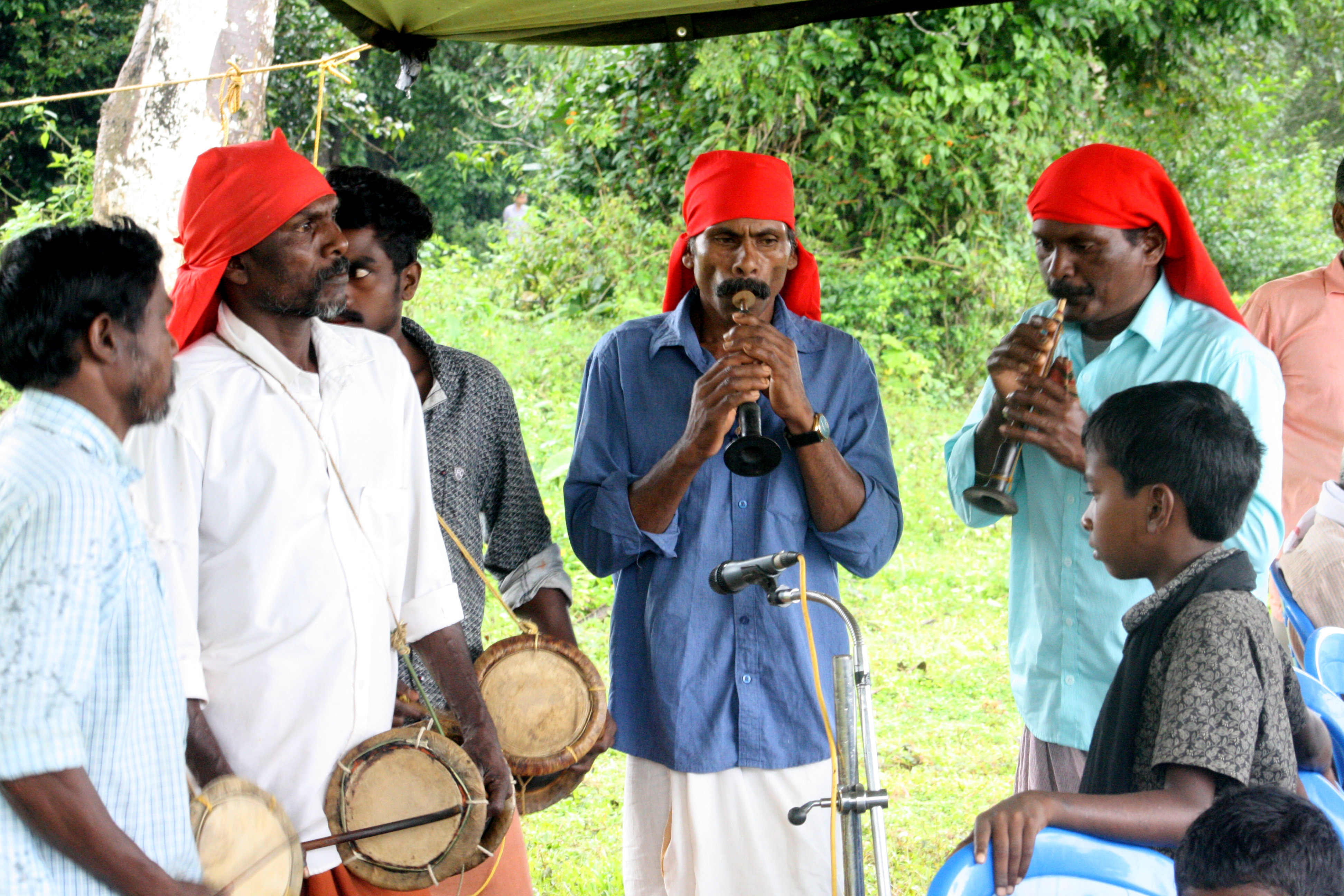 Kamabala Natti (planting of saplings in the paddy field along with music and dance performance) performed at Pulikkal Vayal in Mananthavadi Municipality on 27.08.2017